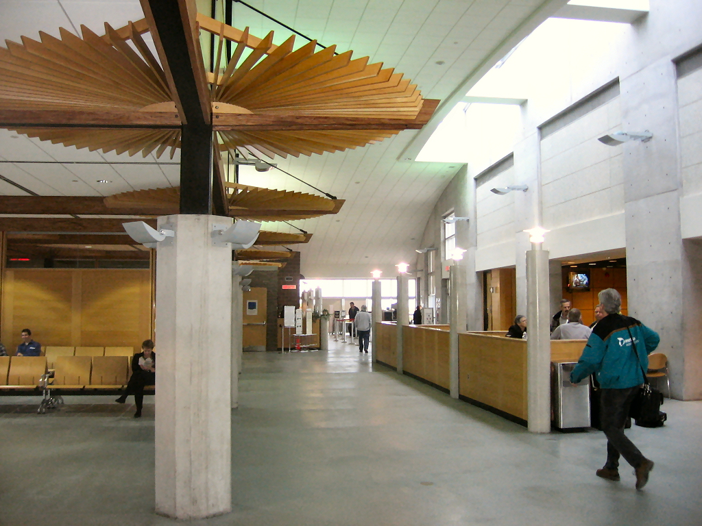 Interior of the terminal building at Jack Garland Airport, North Bay, Ontario, 2006